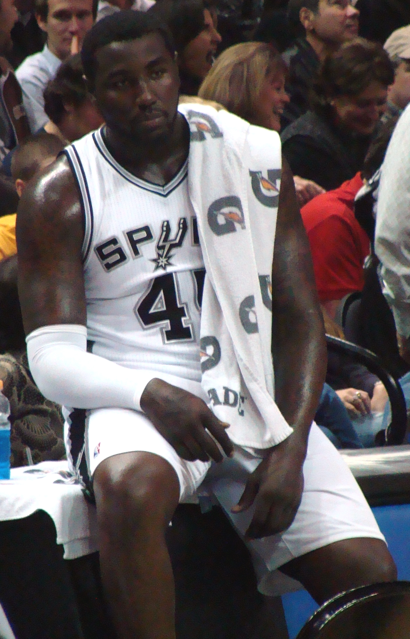 DeJuan Blair of the San Antonio Spurs in pose, during the Spurs-Nuggets match on 12-22-2010 in San Antonio, TX.